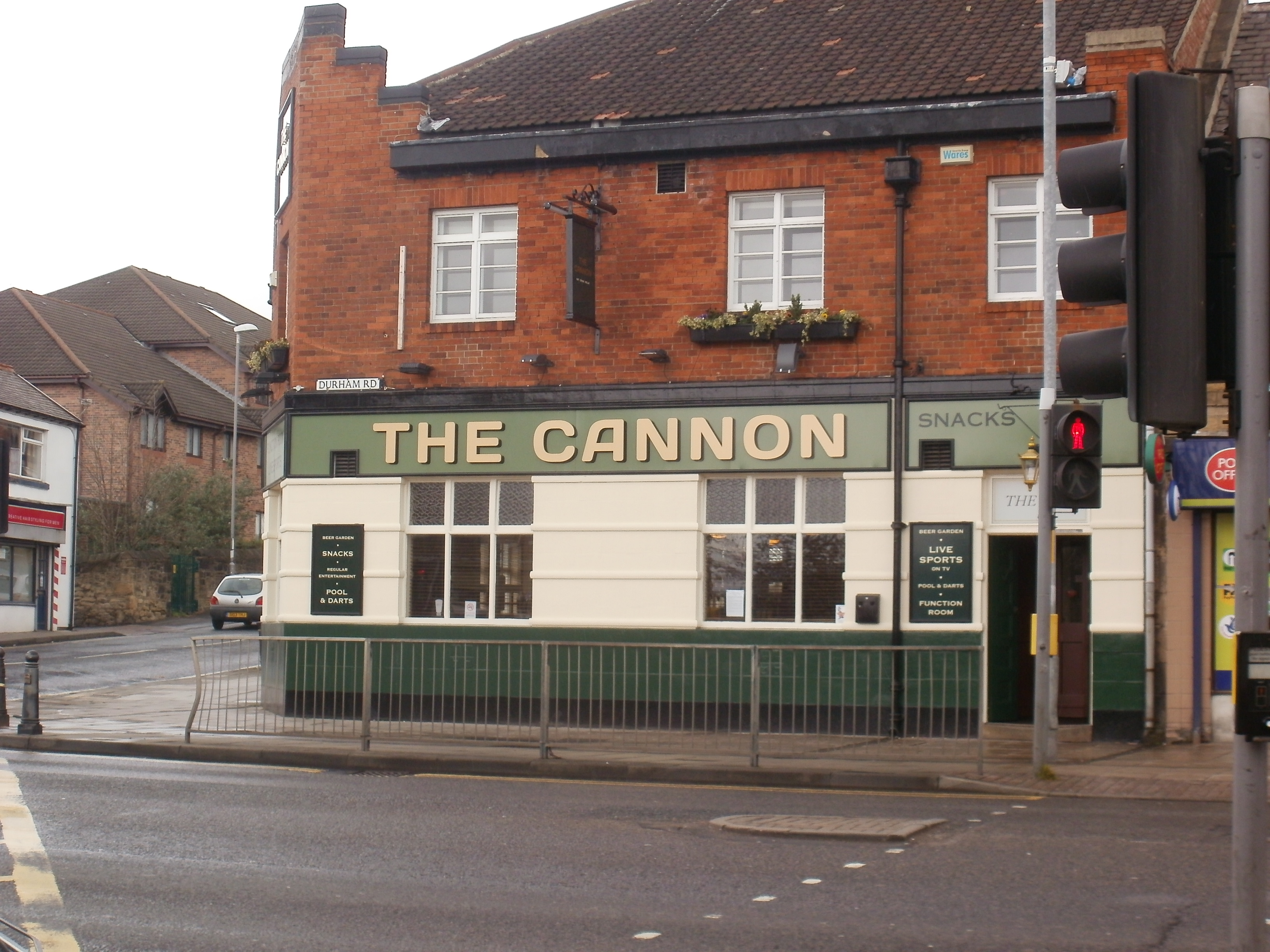 The Cannon Inn was opened in 1826 by Robert Clements. Clements was the proprietor of The Old Cannon Inn at nearby Sheriff's Highway, Sheriff Hill, but realising the damage that the new road through Low Fell (Durham Road) would do to his trade, he relocated to the newer road. The pub still stands and trade (picture circa April 2012)